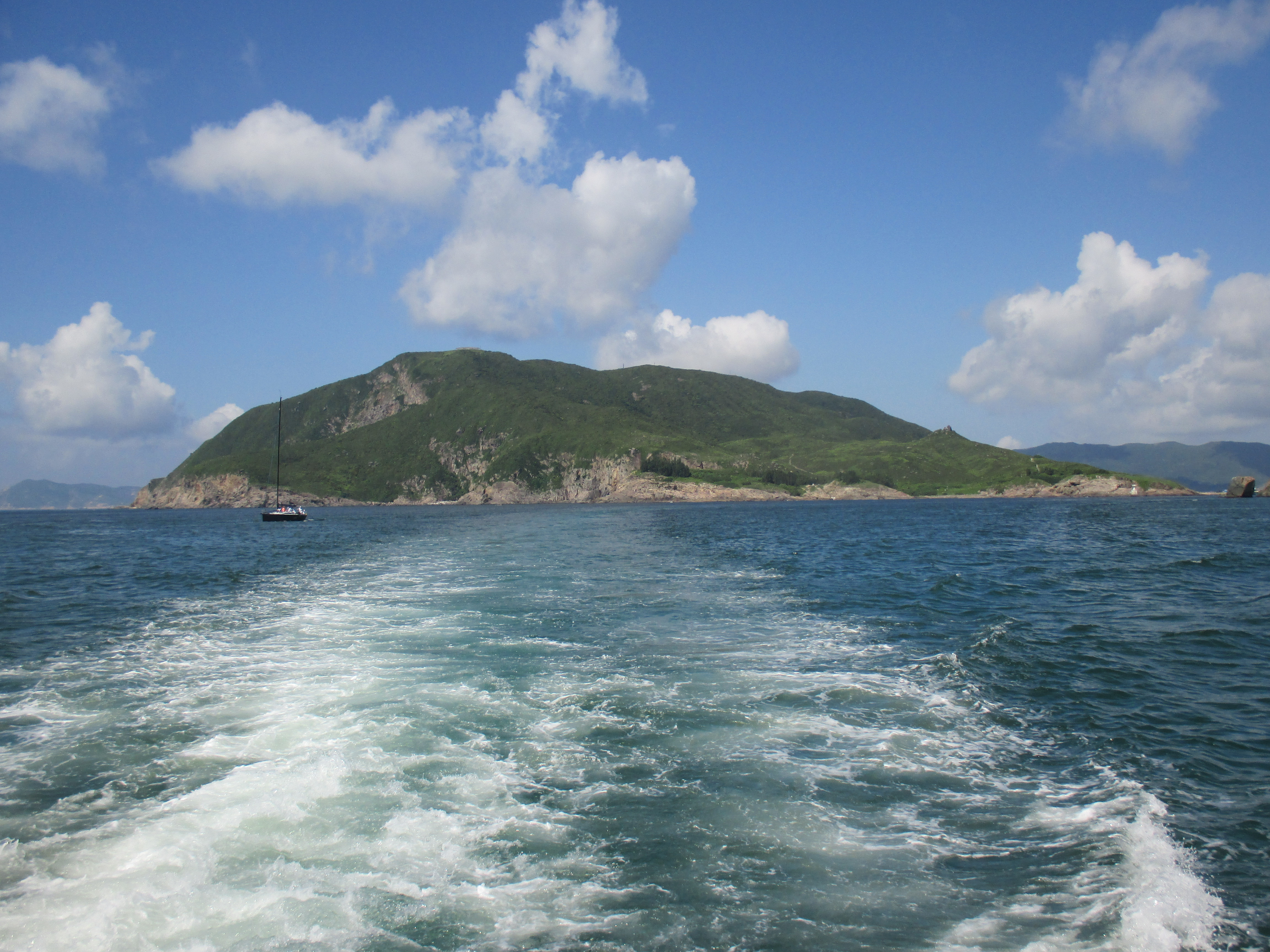 Tung Lung Chau